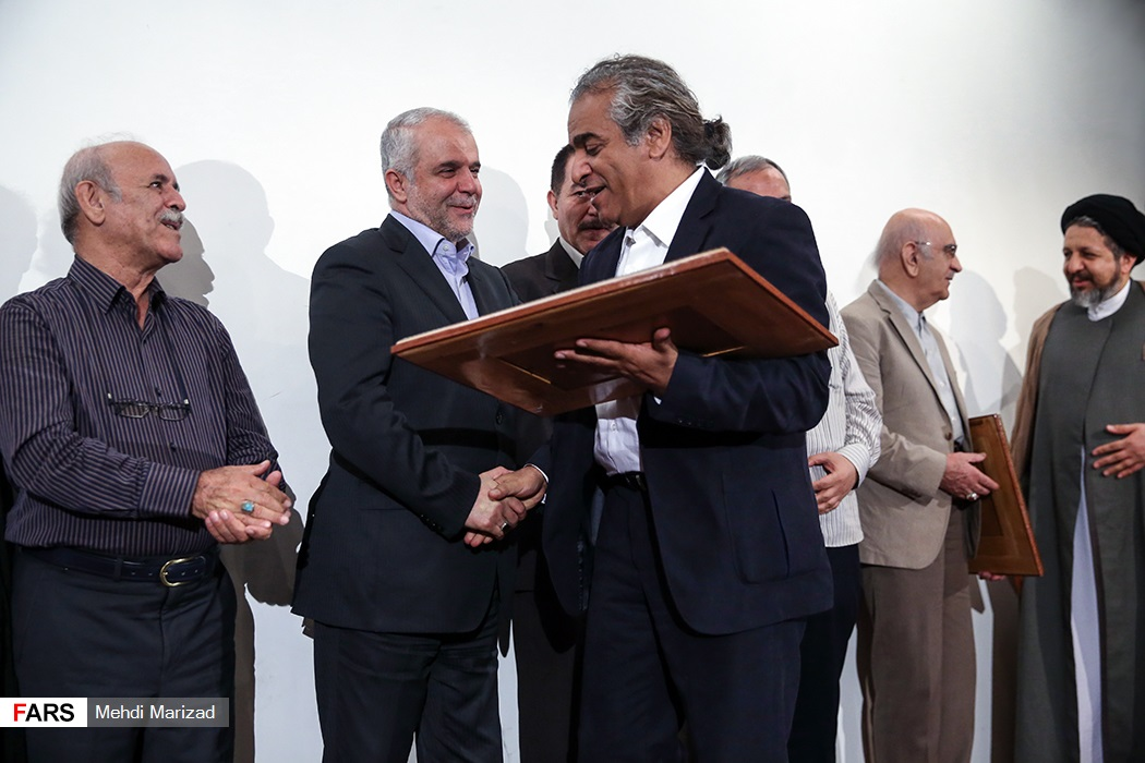 Asqar Hemmat